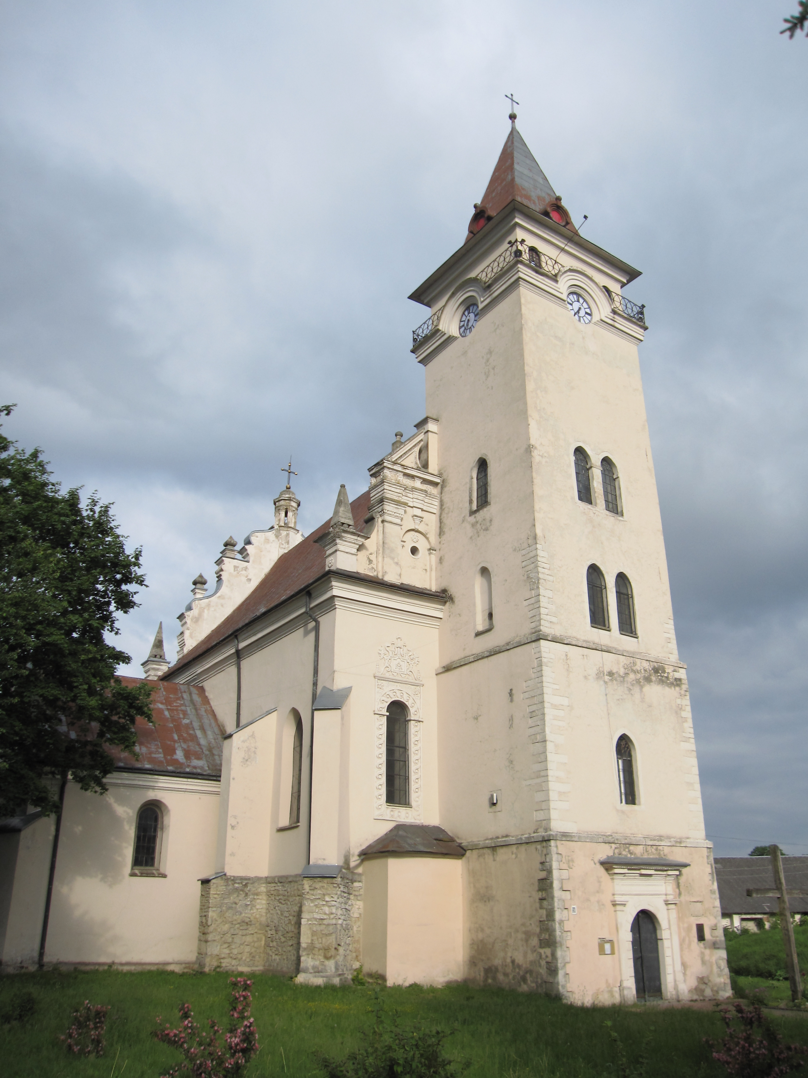 Rohatyn